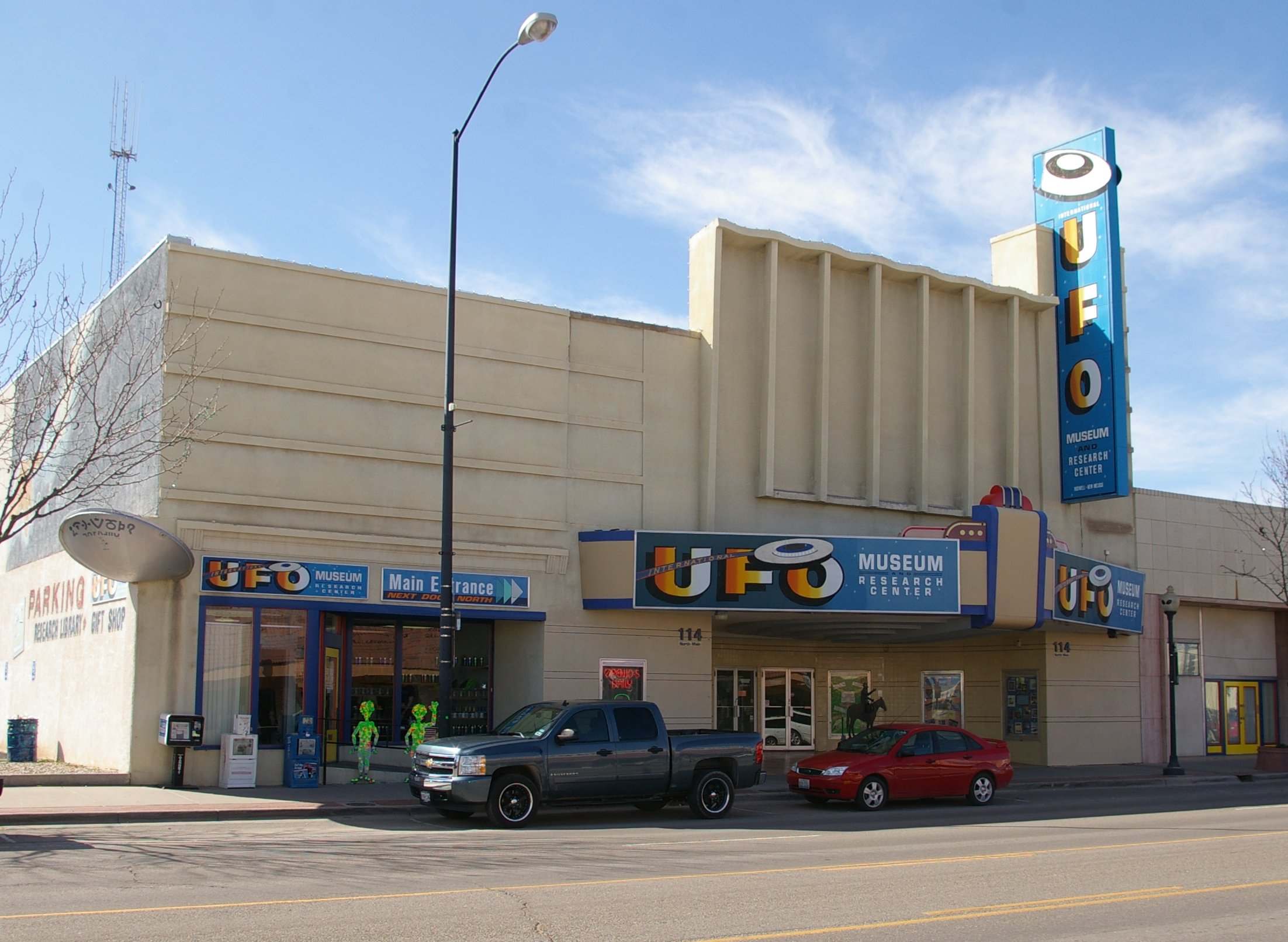 The Roswell UFO Museum which is a popular tourist destination.